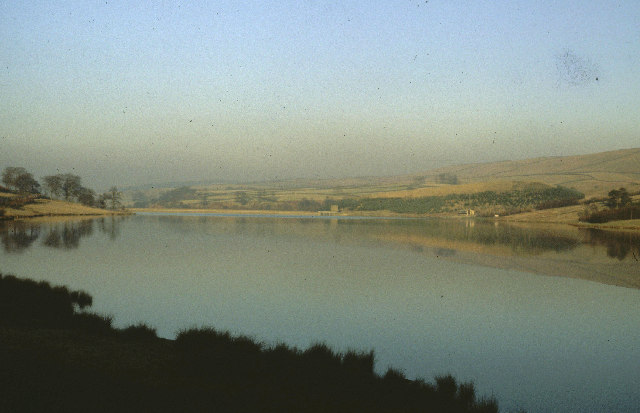 Errwood Resevoir, in the Pennines. Photo circa November 1978.